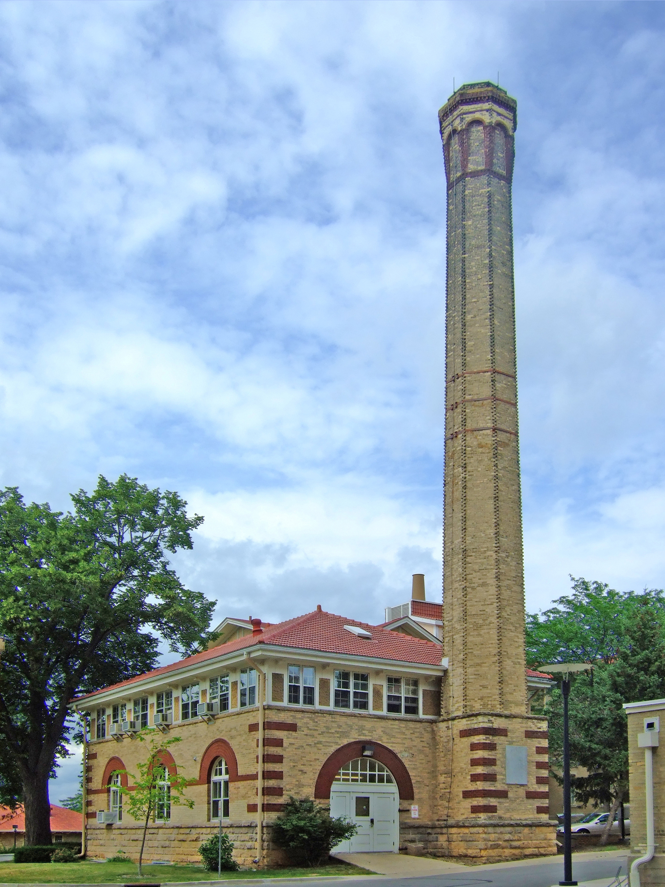 The Agricultural Heating Station at 1535 Observatory Drive on the University of Wisconsin-Madison campus was designed by John T.W. Jennings in the Richardsonian Romanesque style. It was built in 1899 and added to the National Register of Historic Places in 1985.